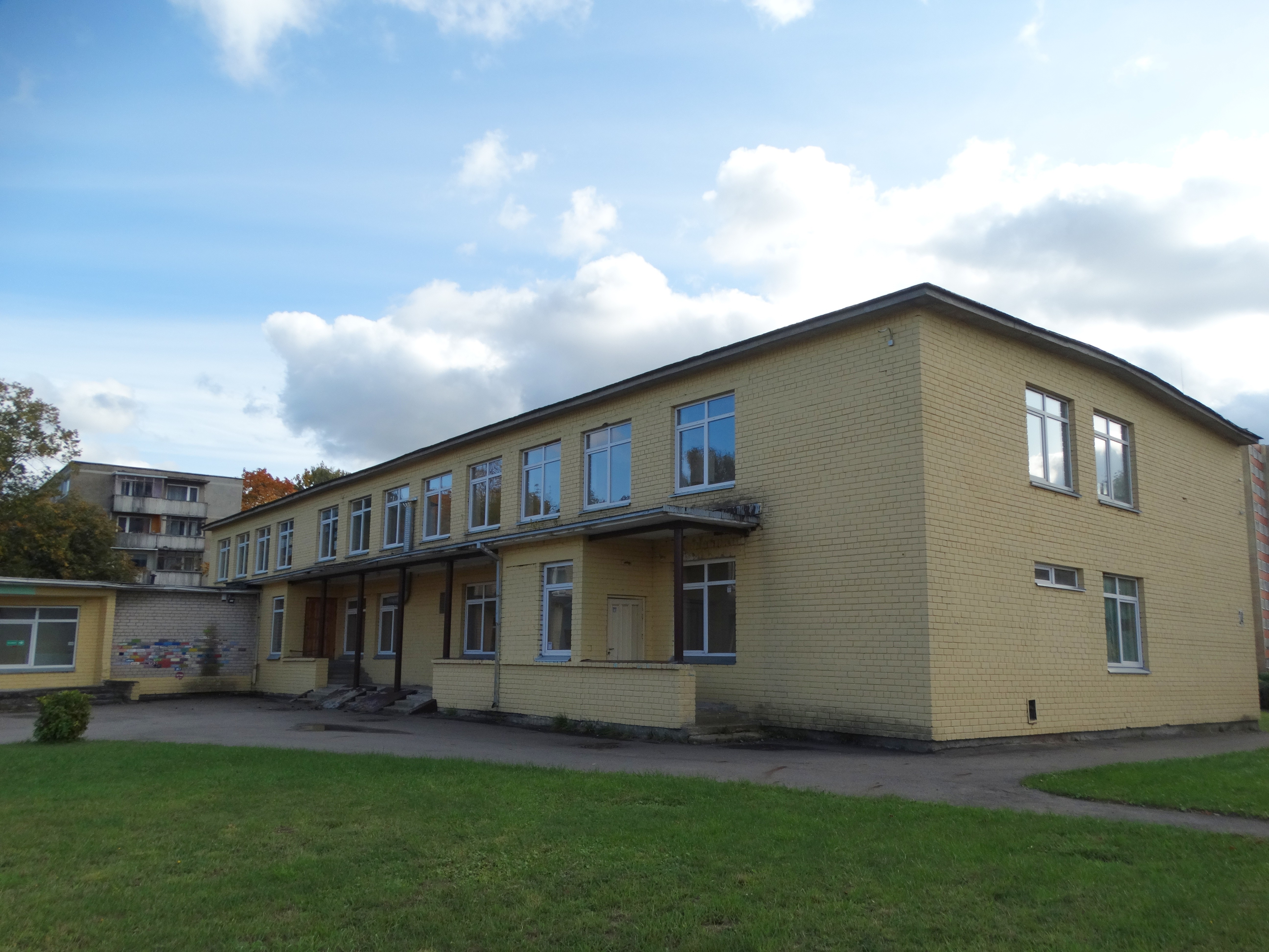 Former Kaunas Youth School, Lithuania